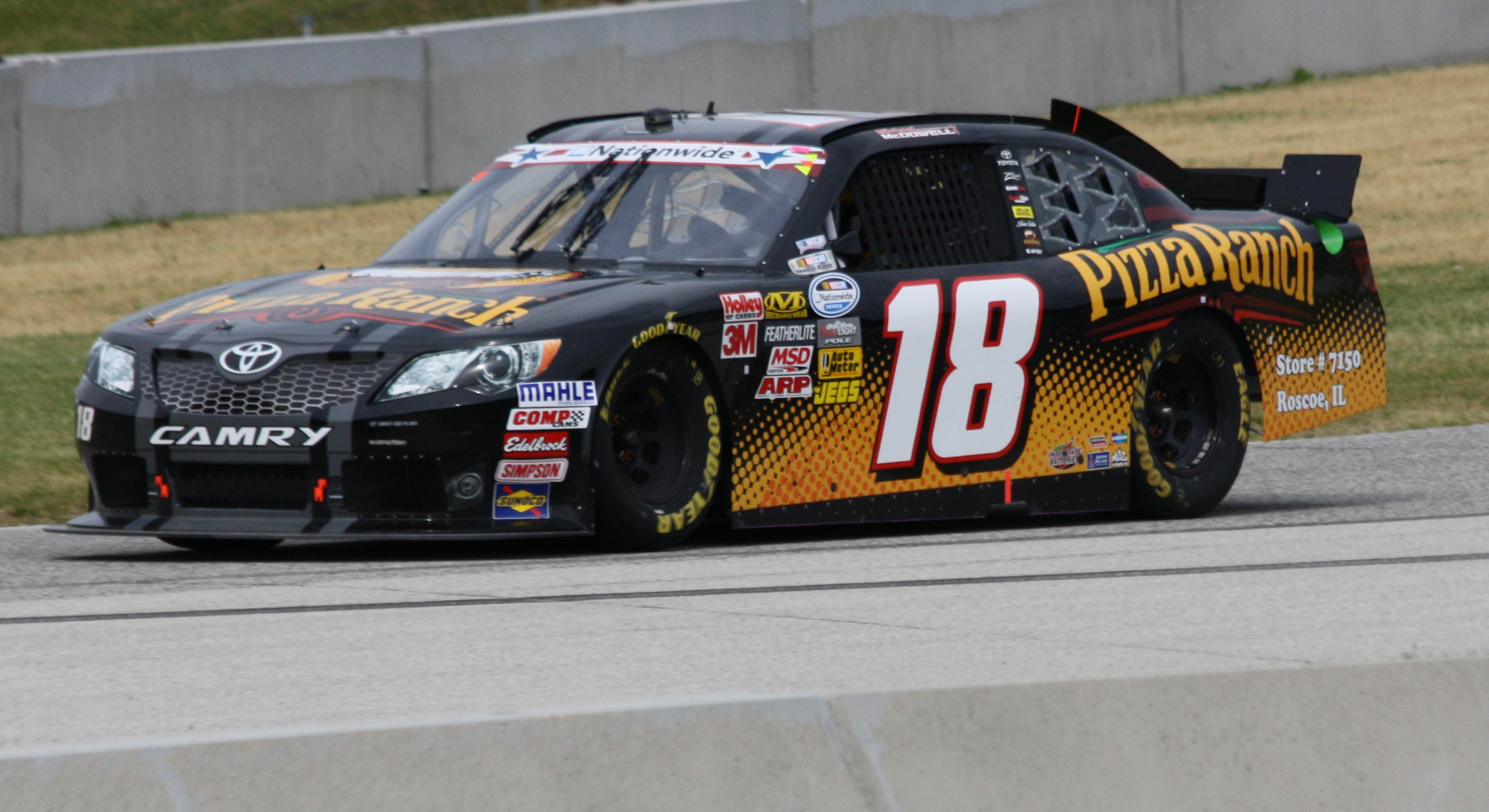 Michael McDowell NASCAR Nationwide Series car at Road America at the 2012 Sargento 200.